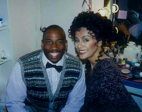 Stacey Robinson poses in 1997 with rhythm and blues singer and actress Marilyn McCoo (of the musical group The Fifth Dimension). The occasion was the Chicago performance of Hal Prince's and Susan Stroman's production of Rogers and Hammerstein's Showboat. (Courtesy of photographer Mary Biggs; modifications (cropping, tone) by Tom Sulcer. Exact date is approximate.)